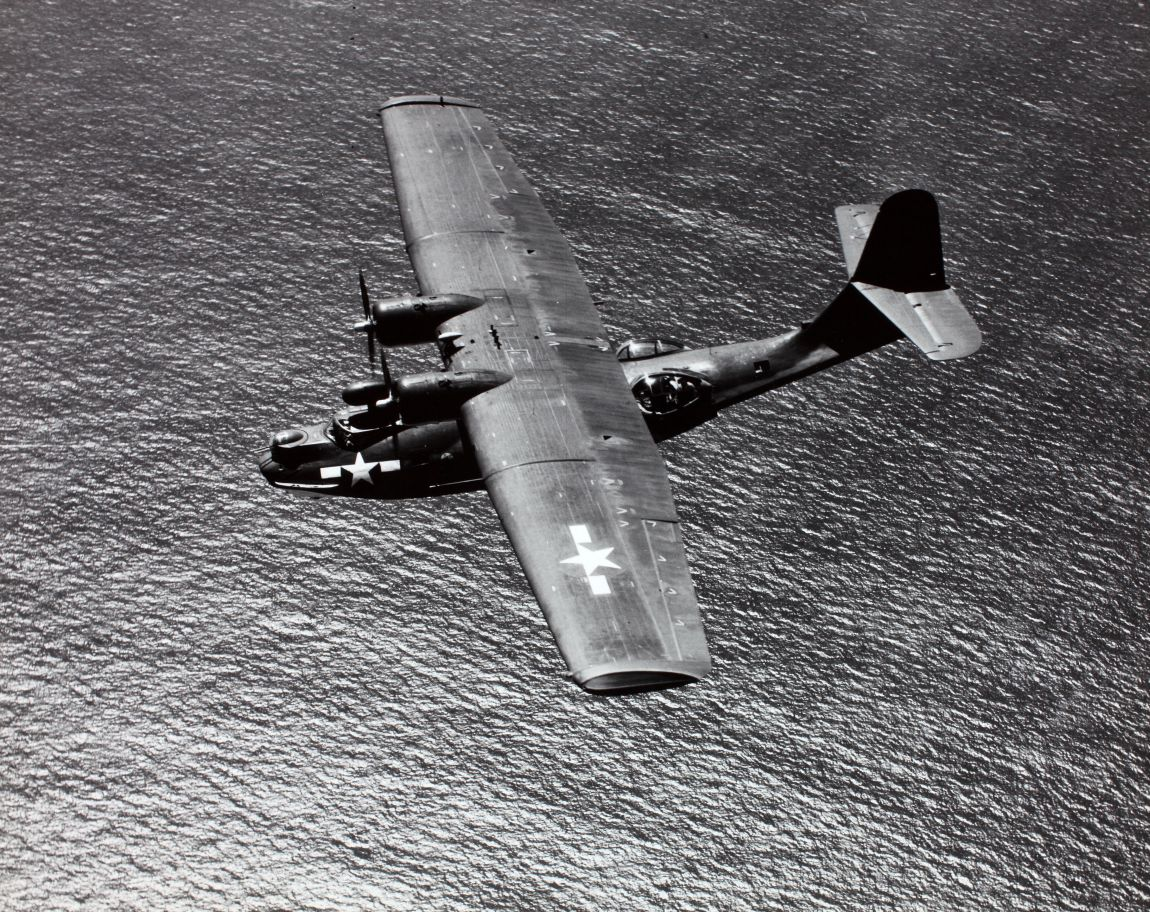 FILE NAME: 01_00091931 SDASM.CATALOG: 01_00091931 SDASM.TITLE: Consolidated, PBY-6A, Catalina SDASM.CORPORATION NAME: Consolidated SDASM.OFFICIAL NICKNAME: Catalina SDASM.TAGS: Consolidated, PBY-6A, Catalina PUBLIC COMMONS.SOURCE INSTITUTION: San Diego Air and Space Museum Archive